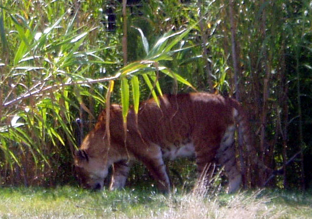 Tigon at Canberra Zoo.